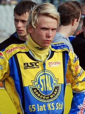 Michael Jepsen Jensen in season 2012.